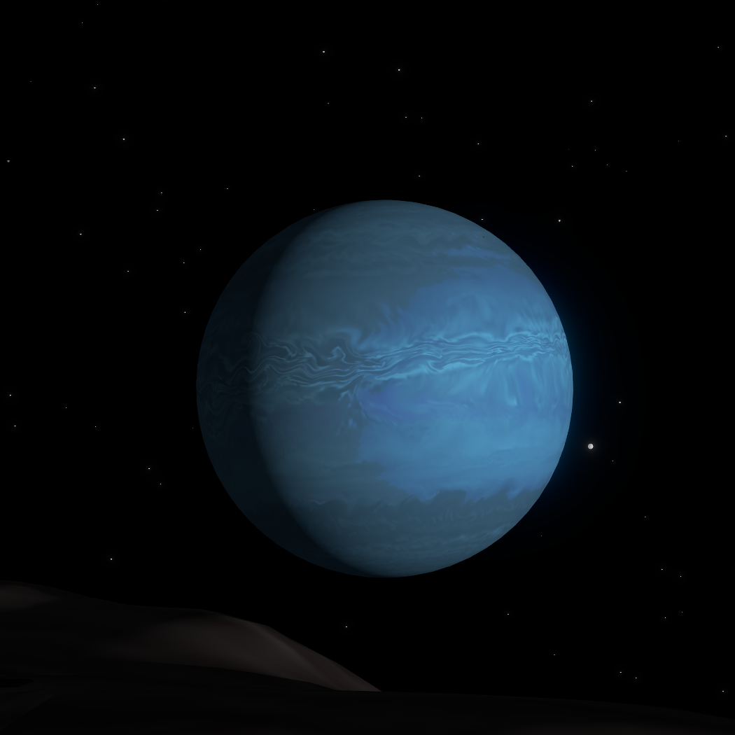 View of Neptune from the newly discovered S/2004 N 1